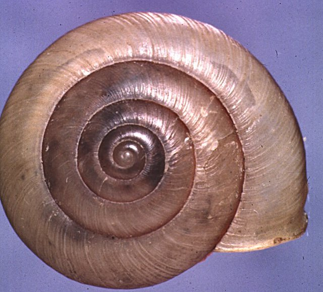 Photo of apical view of the shell of Bradybaena similaris